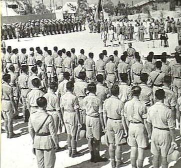 1941-09. MIDDLE EAST. SWEARING IN OF YUGOSLAV RECRUITS - GENERAL VIEW OF THE PARADE GROUND. (NEGATIVE BY B.M.I.).